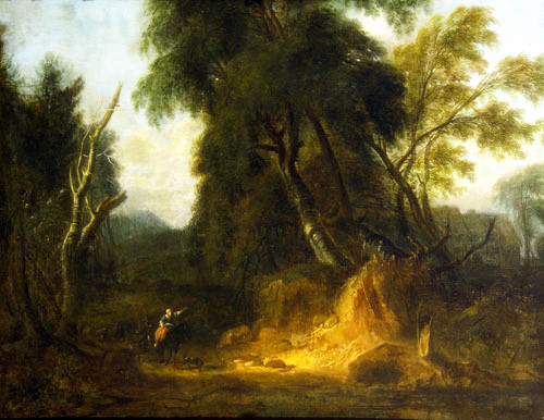 Landscape